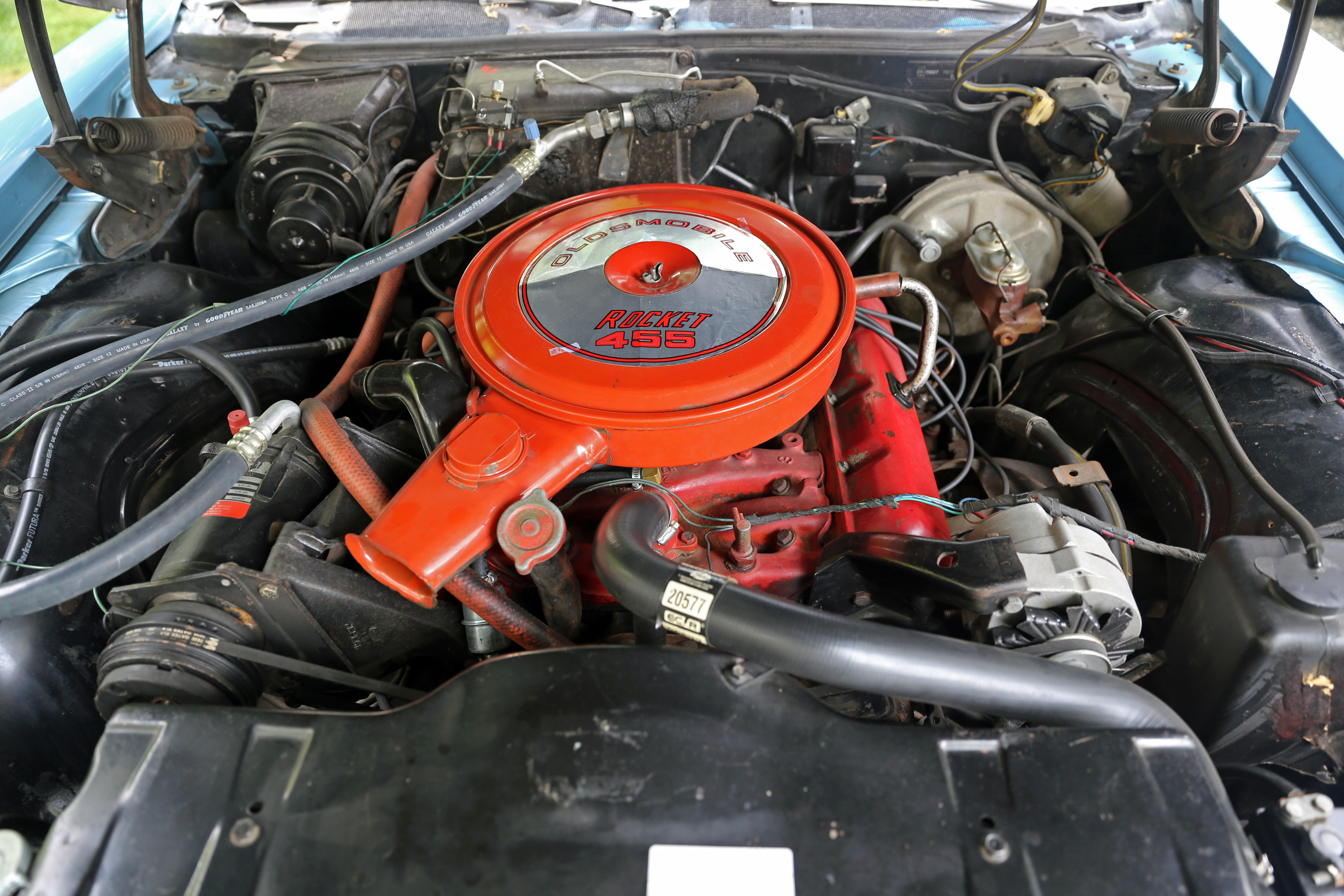 An Oldsmobile Rocket 455 engine in a 1968 Delmont 88 convertible. This was the first year for Oldsmobile's 455; they were only painted red in 1968 and 1969. The Delmont plate was retired after this year.